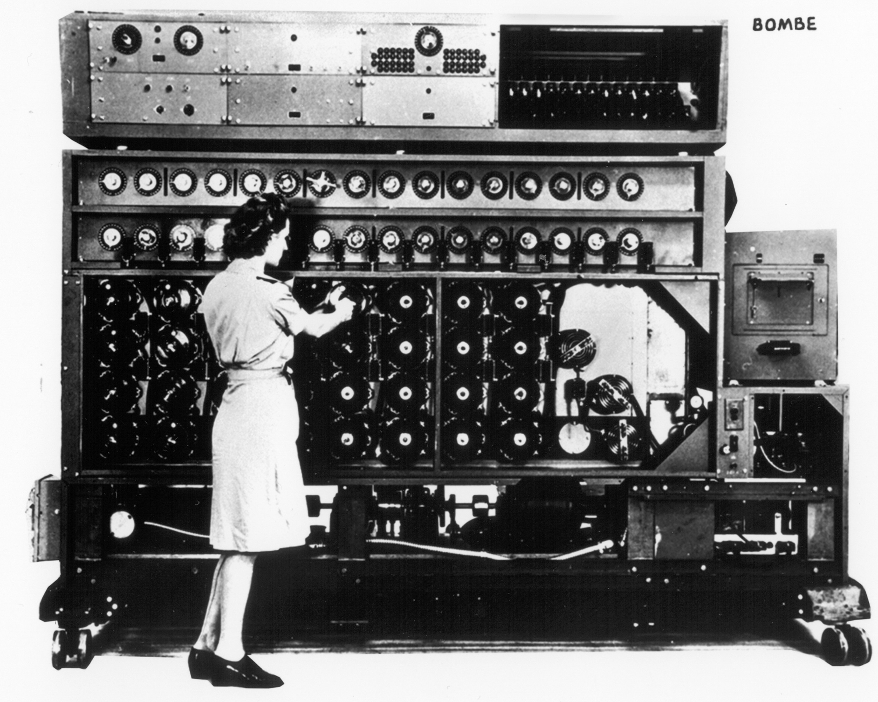 Bombe computing device, made by national cash register, used to aid decryption of german enigma cypher, ww2An Enigma decryption machine, called a "bombe." This machine, made by National Cash Register of Dayton, Ohio, eliminated all possible encryptions from intercepted messages until it arrived at the correct solution.